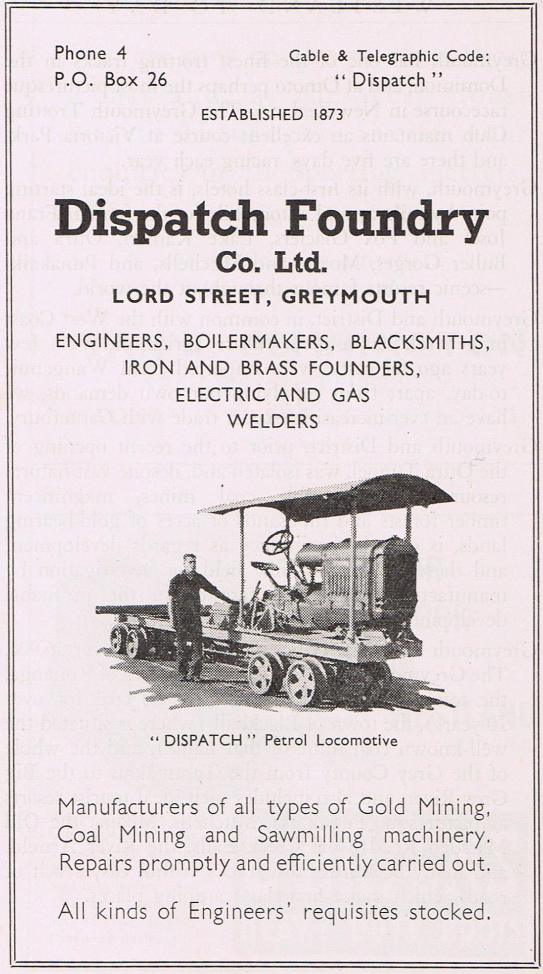 Advert of Dispatch Foundry Co Ltd, 1940